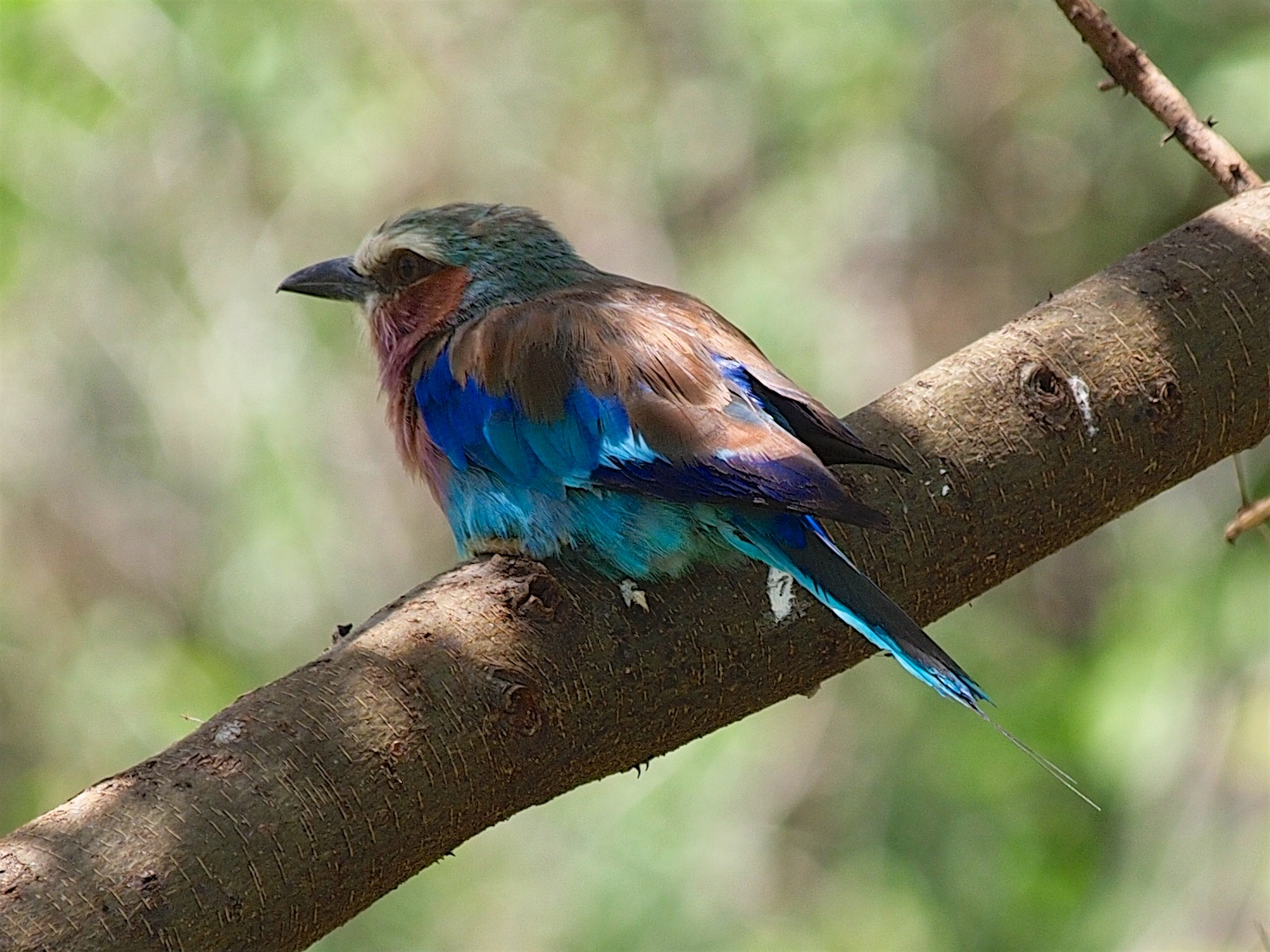 Lilac-breasted Roller Coracias caudatus, Lake Manyara National Park (2015)